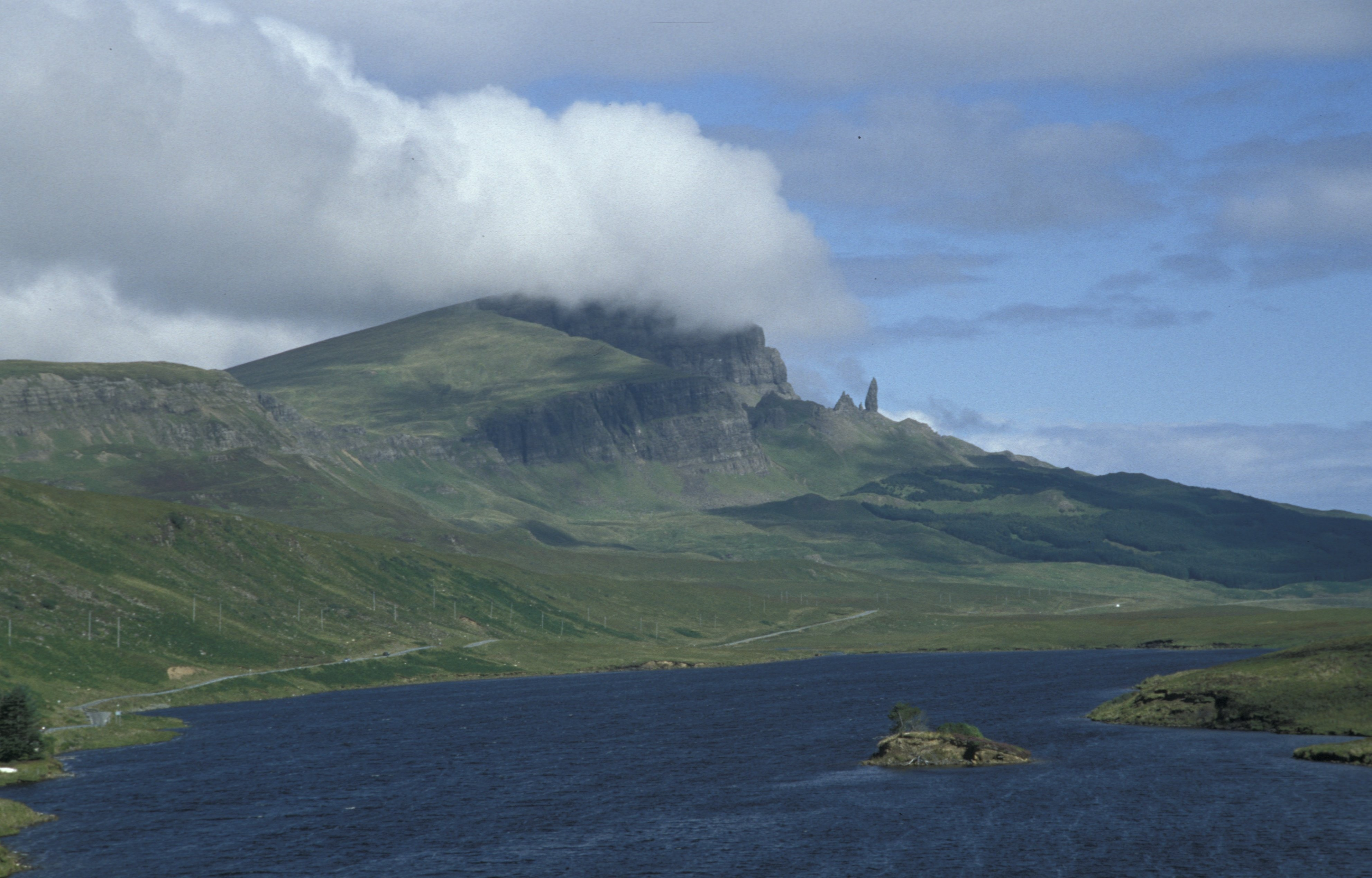 Old Man of Storr (rock), Skye (island), Scotland. View approximately from the south. Scanned from a slide photography taken 2003-08-28.